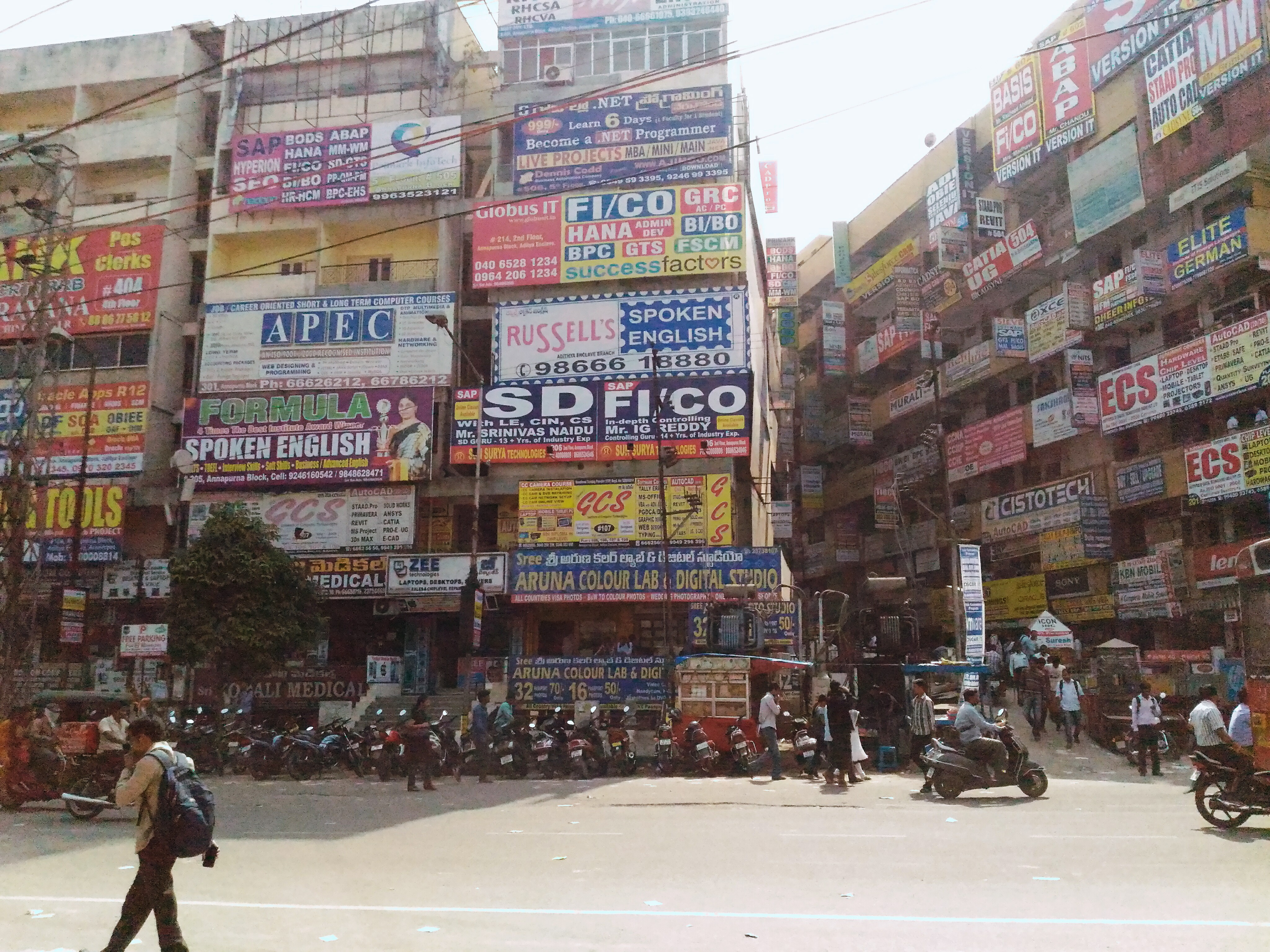 Hyderabad in India is a learning hub. Particularly, Ameerpet location. Activity here starts as early as 7:00 am every day. Students learn new courses and professionals hone their skills at Ameerpet. A photograph of Aditya Enclave, where almost all the floors are full of training institutes. Mostly software courses are taught at Ameerpet.